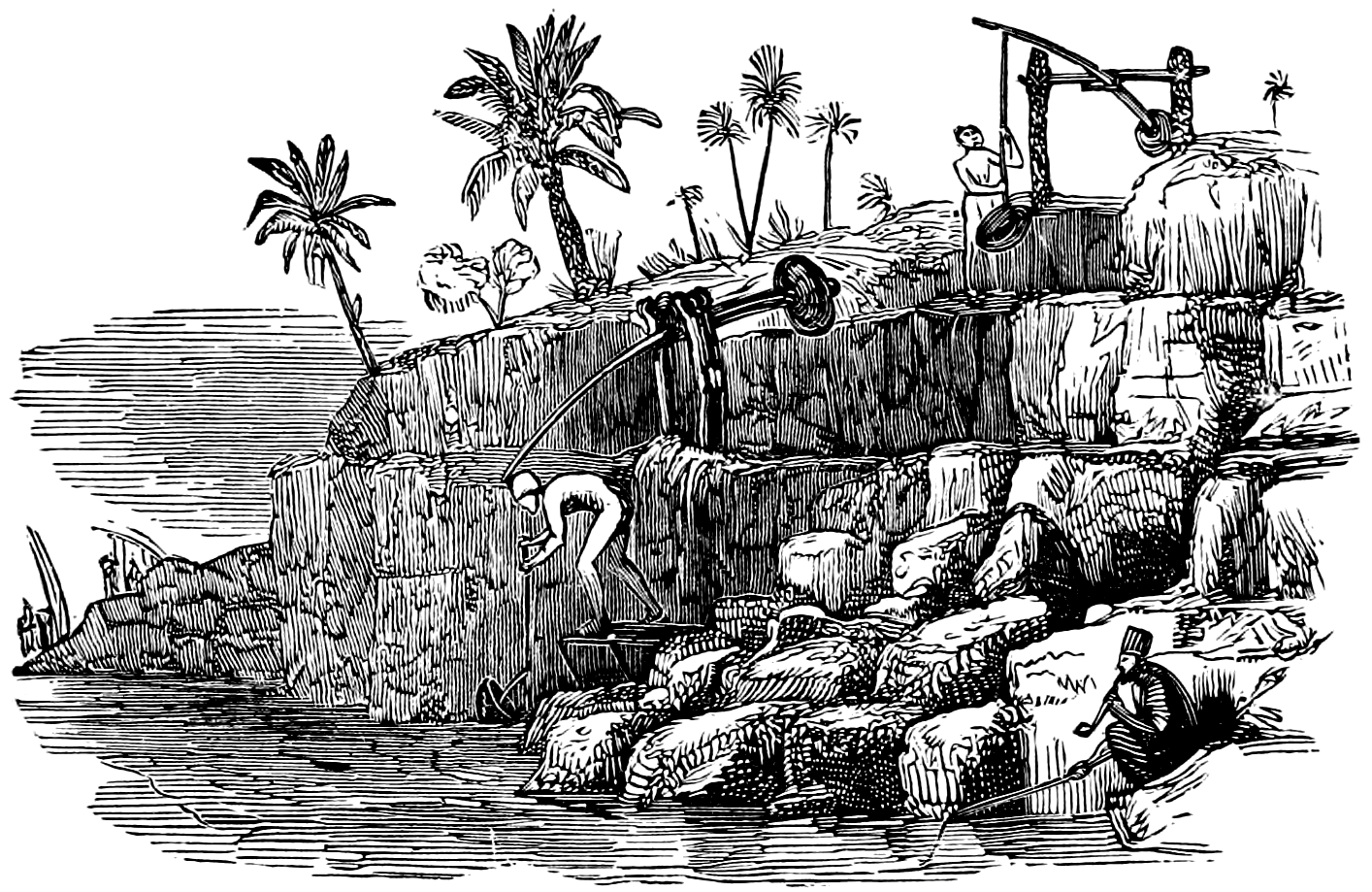 Caption in book reads: "Modern shadoof, or pole and bucket, used for raising water, in Upper and Lower Egypt"